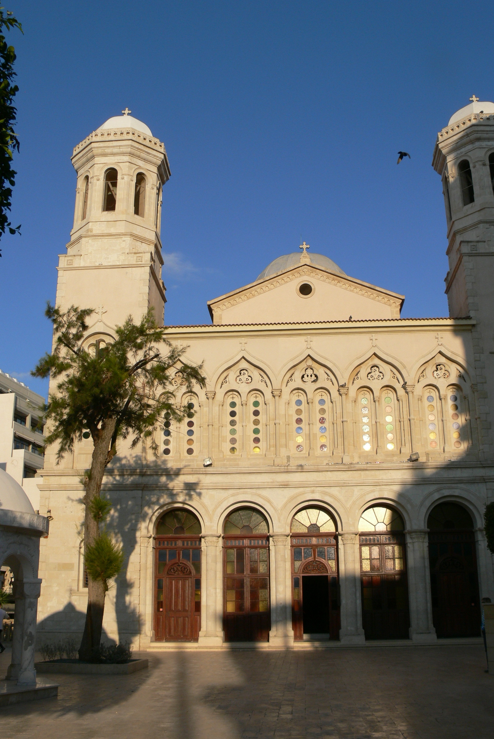 Limassol ( Cyprus ). Agia Napa cathedral.